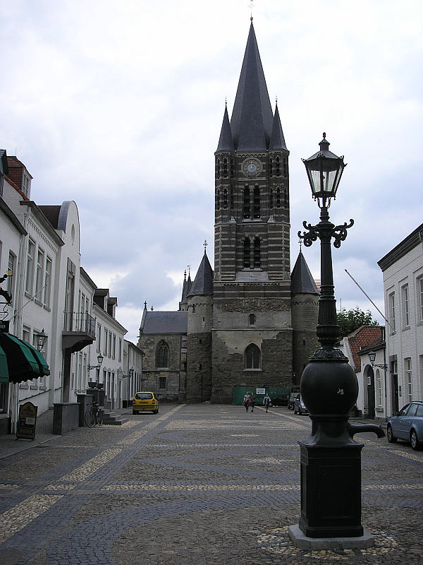 Thorn (Netherlands). Abbey church and town square. Location: Thorn, Limburg, Netherlands nl: Thorn - Plein voor abdijkerk Locatie: Thorn, Limburg, Nederland